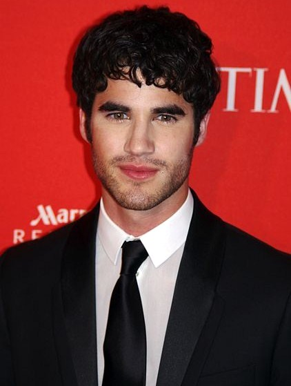 Darren Criss at the 2011 Time 100 gala.